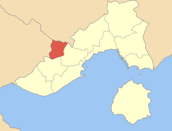 Locator map of Pangeo municipality (Δήμος Παγγαίου) in Kavala prefecture (Νομός Καβάλας) in Greece.